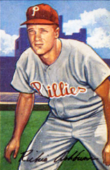 Richie Ashburn of the Philadelphia Phillies